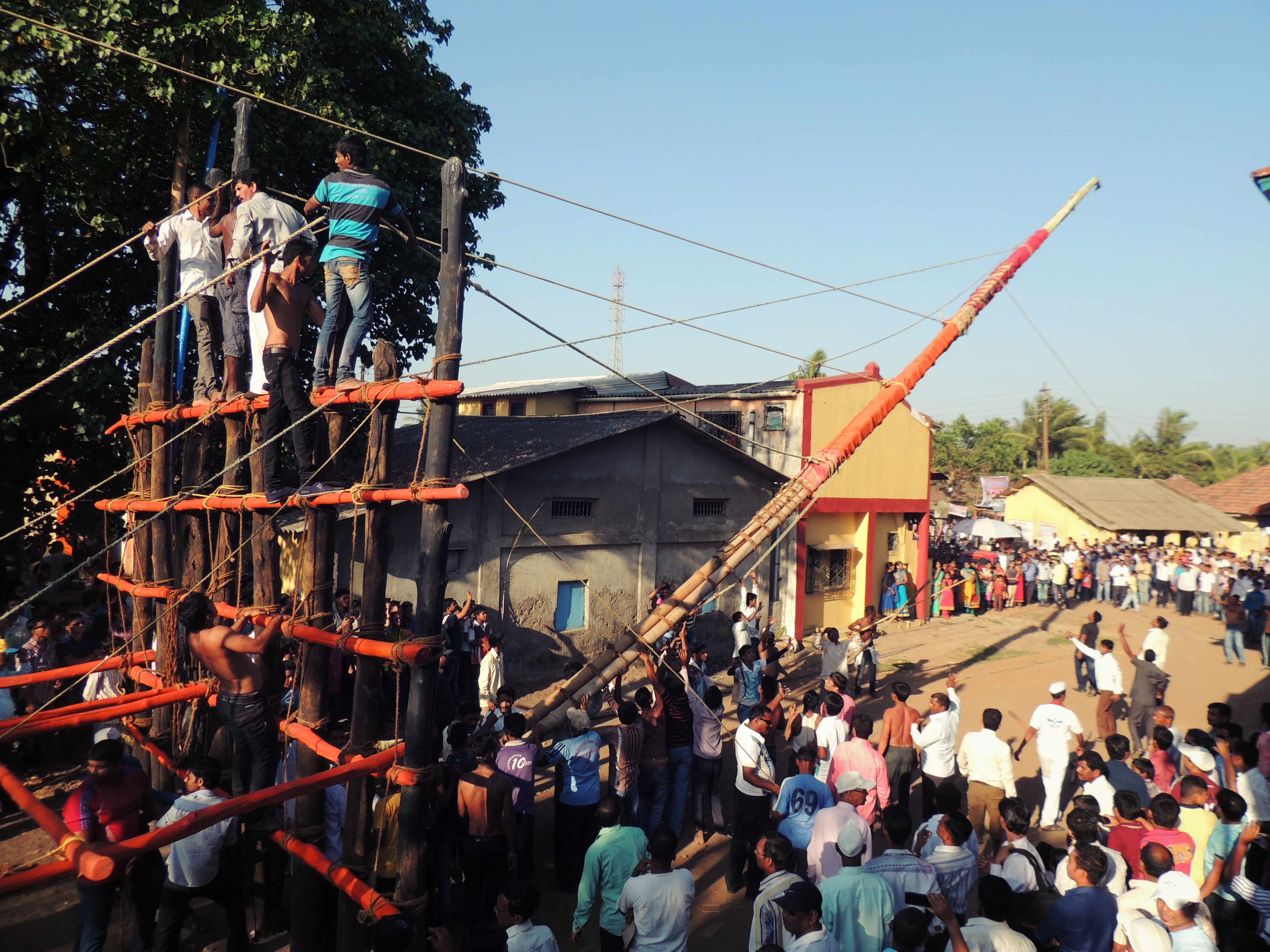 From the sea shore of arabian sea,and from Pen taluka 'Vadhav' is at a distance of 8 kilometre.As per every year this year too Shree bahiri Dev's yatra was held.Lakhs of devotees attended the yatra and worshipded Lord Bahiri.Main attraction of this yatra is that the devotees hit cactus(perkut) with thorns on their body.Vow made by any devotee is fullfiled by lord Bahiri,according to their individual proclivities and beliefs.The day before Chaitra Pournima Shree Bahiri Dev's yatra was held.